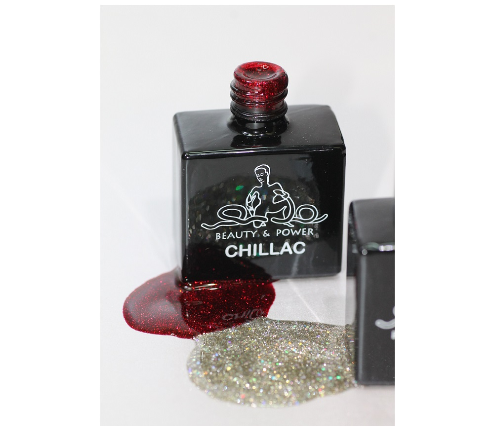 Chillac gelpolish